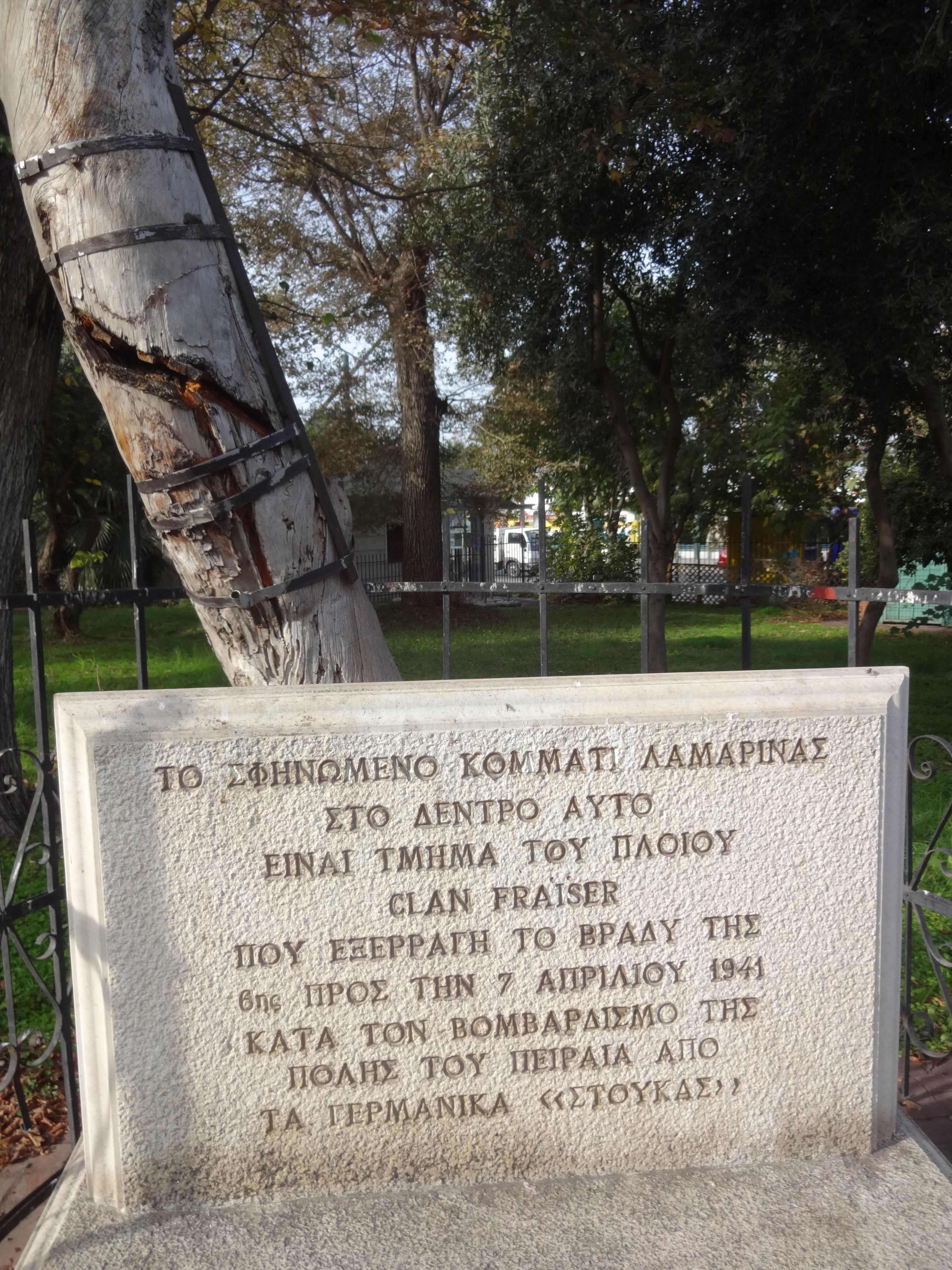 The tree in which is wedged piece of shell plating of steamer SS Clan Fraser after explosion, caused by German bombing of port of Piraeus, Greece April 6, 1941